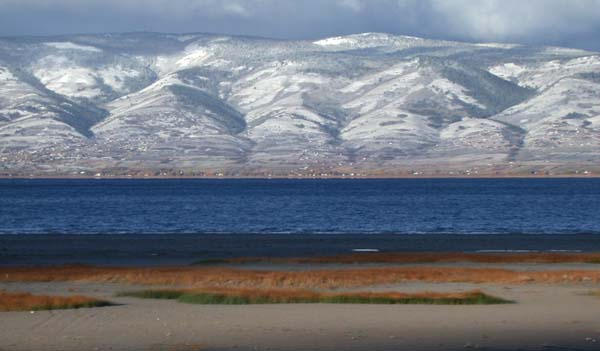 Bear Lake, as seen from Bear Lake State Park along the eastern shore in Idaho; Bear River Range on opposite shore. (taken Oct. 18, 2004, after snowfall).